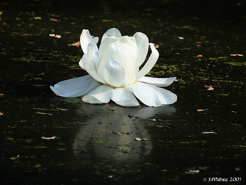 Giant Amazon Water Lily Victoria amazonica in Kolkata, West Bengal, India.